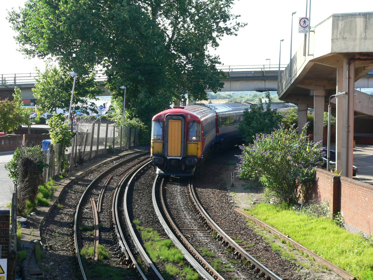 South West Trains Class 442 750v dc third rail EMU (44)2402 County of Hampshire leaves Poole railway station and approaches the level crossing with High Street. Photographed from the pedestrian footbridge that prevents a train severing all communication between the upper and lower parts of the high street.